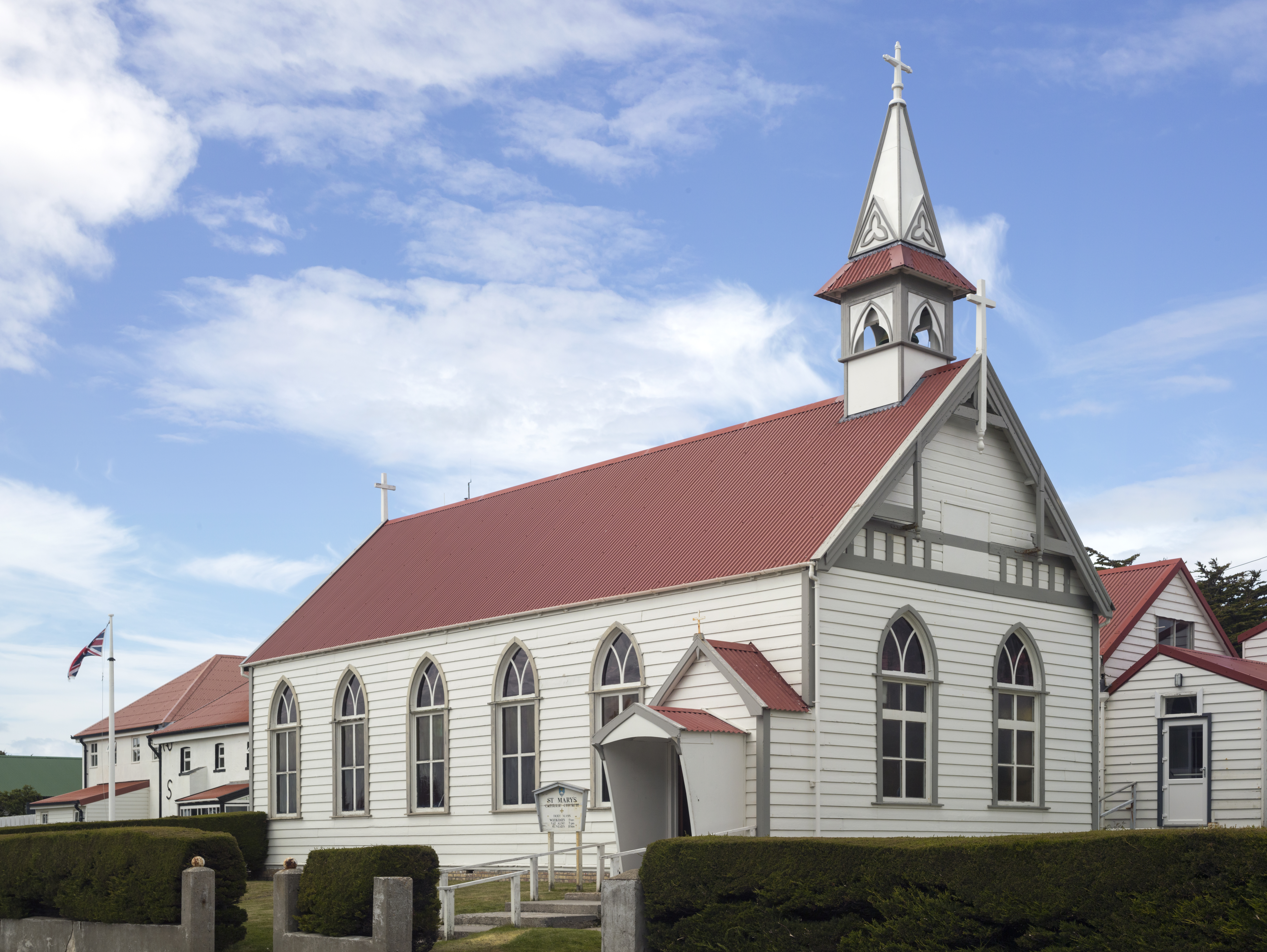 St. Mary's Catholic Church in Stanley, East Falkland, is the only Roman Catholic church in the Falkland Islands